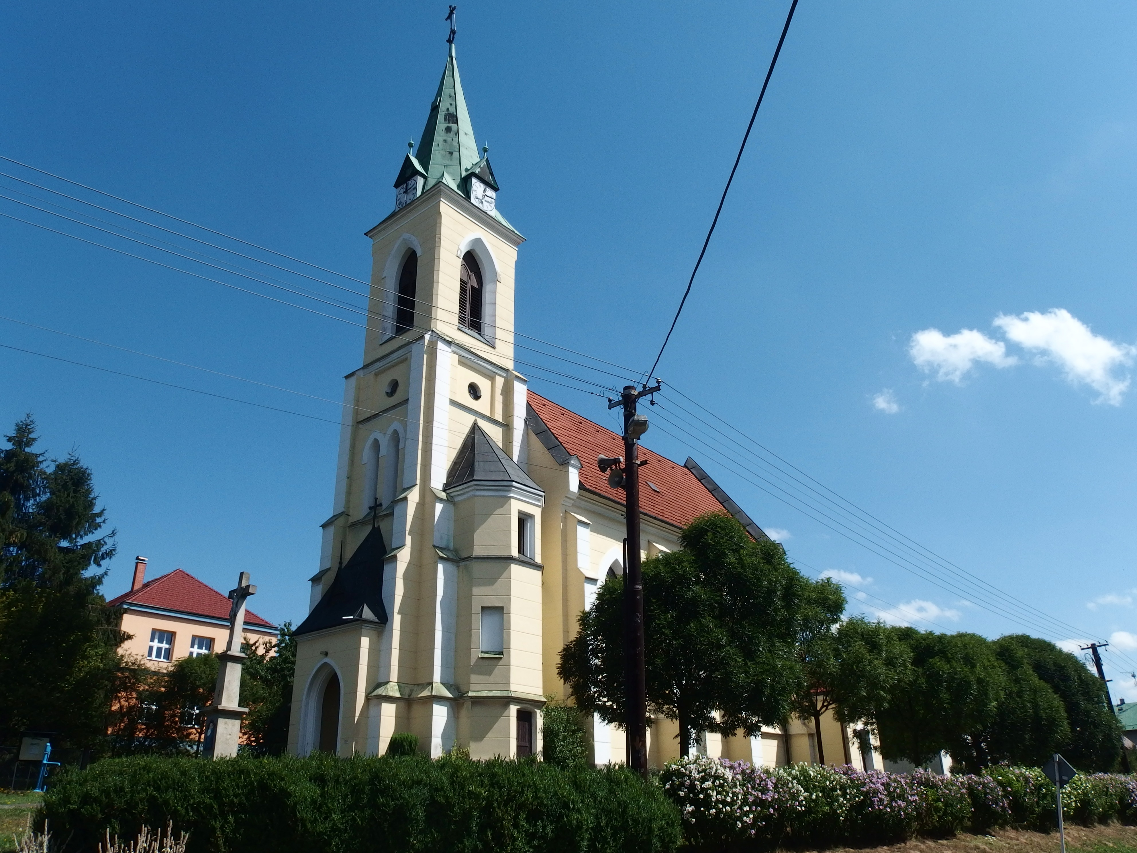 Starý Jičín, Nový Jičín District, Czech Republic, part Starojická Lhota.